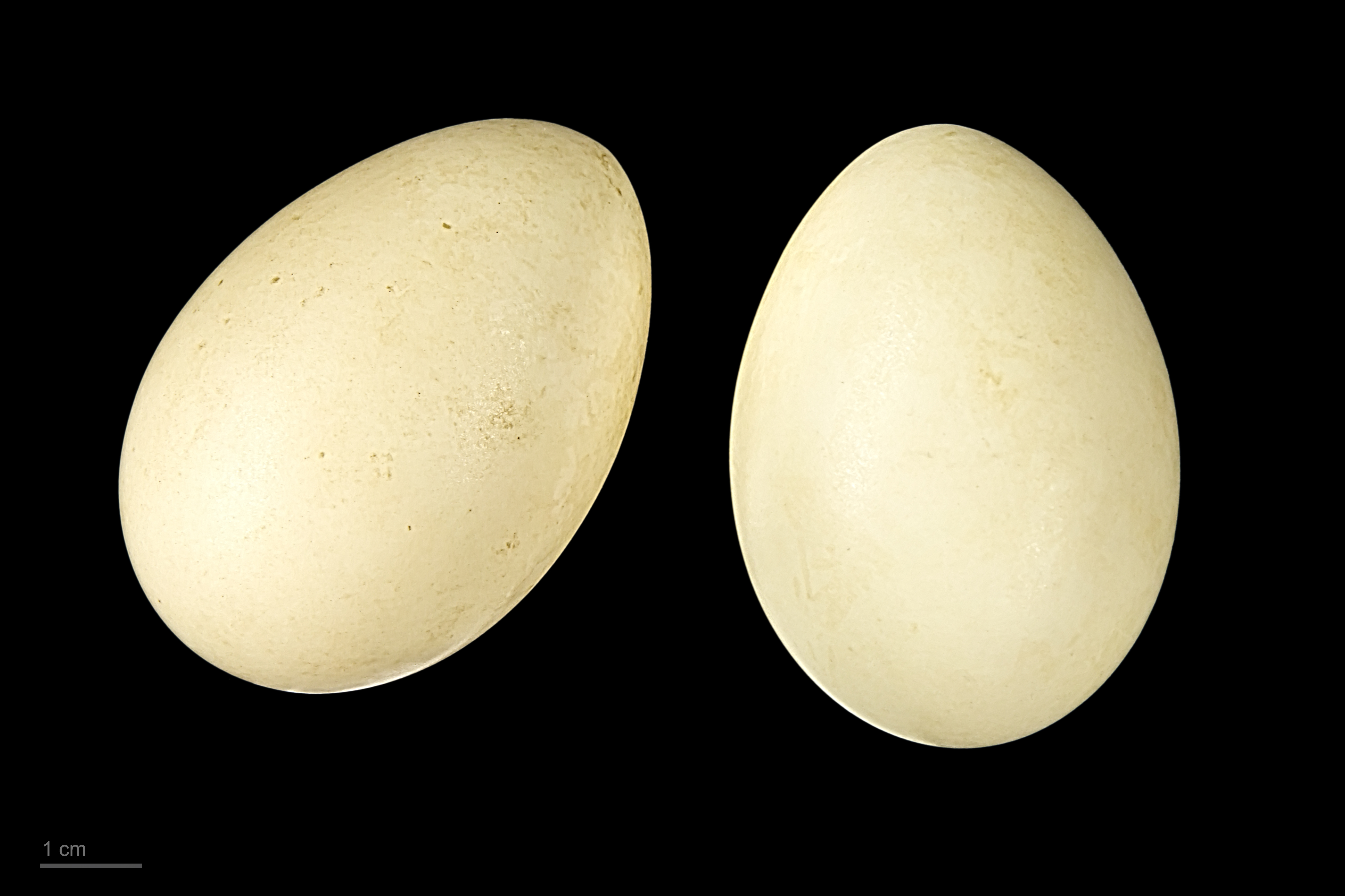 Eggs of harlequin duck Two specimens of the same spawn ; collection of Jacques Perrin de Brichambaut.